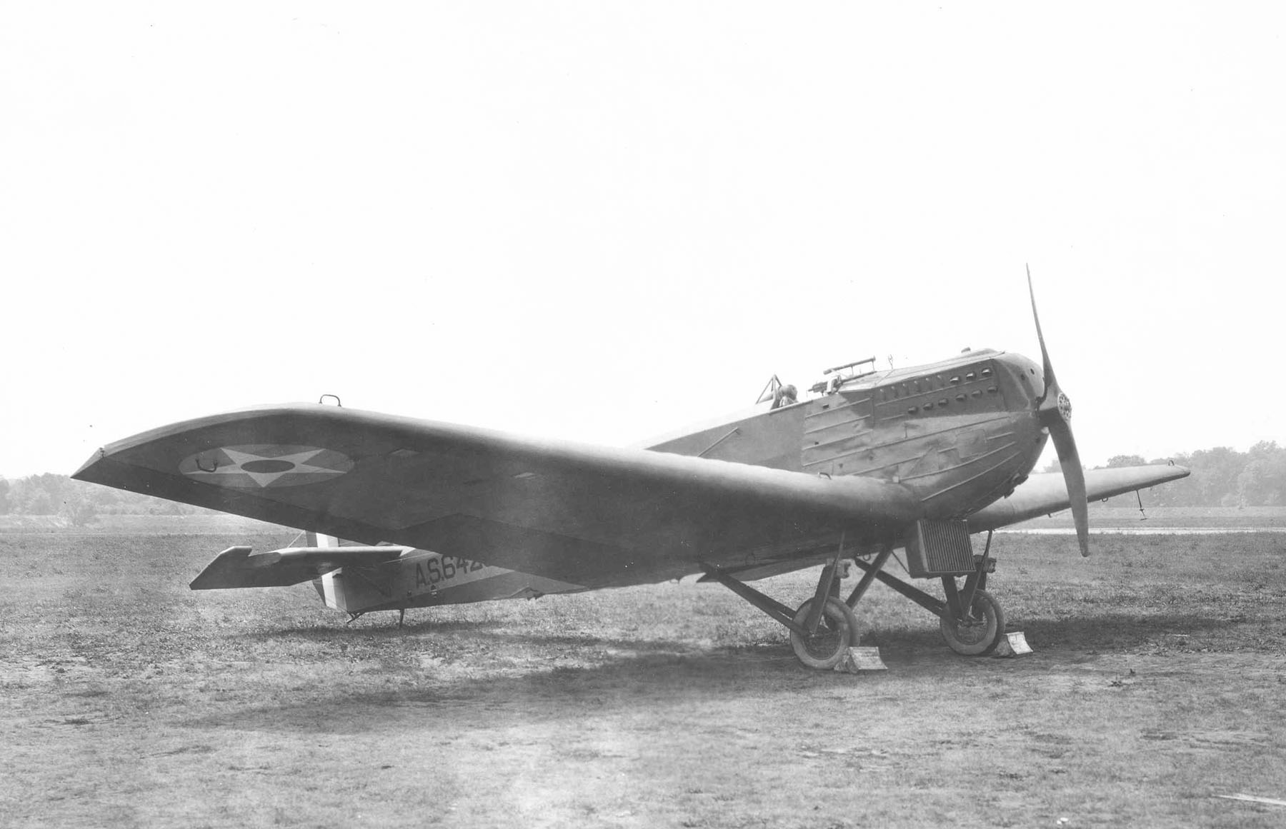 The Gallaudet DB-1B (AS.64238) bomber prototype.